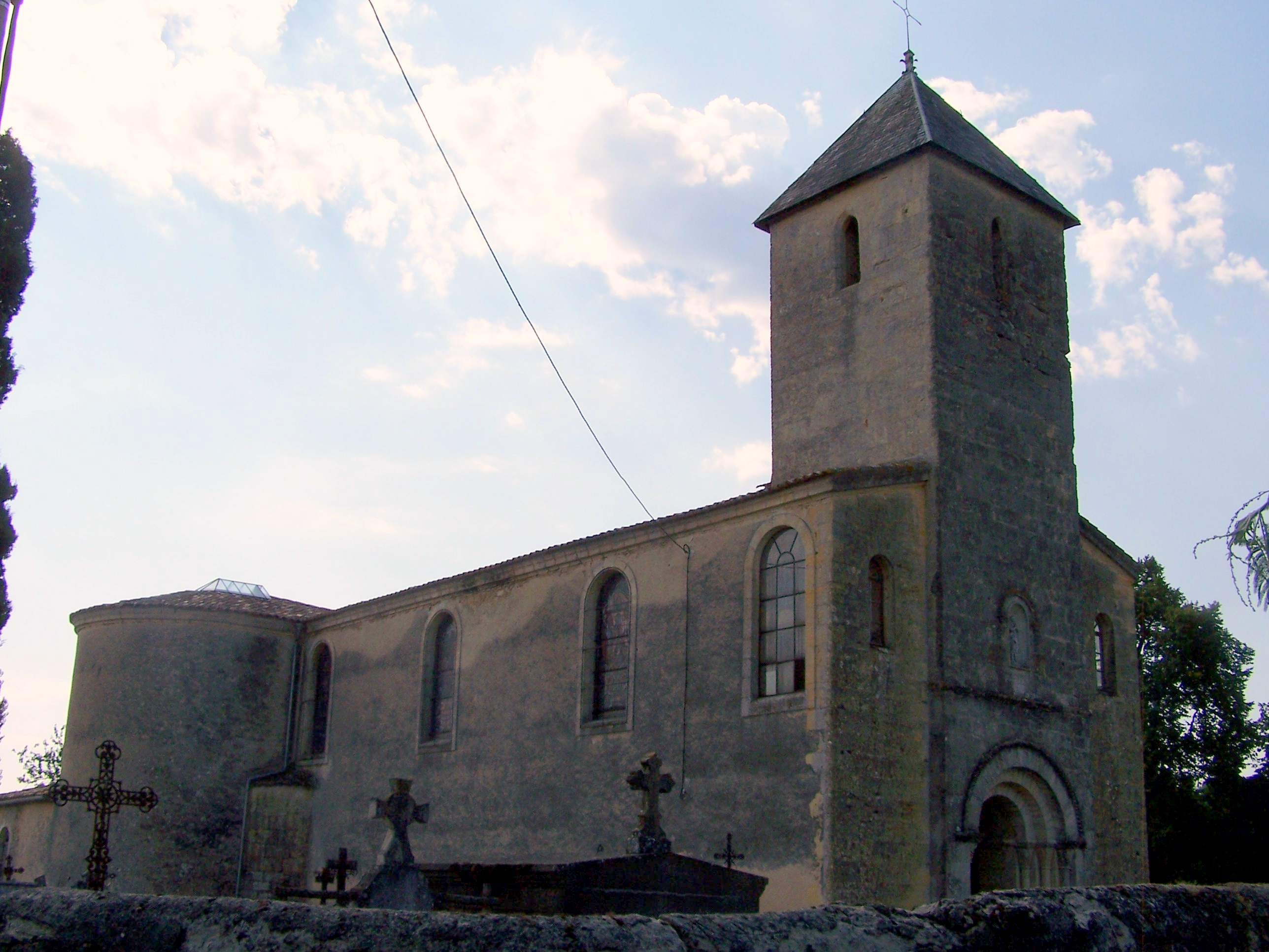 Church of Coimères (Gironde, France)